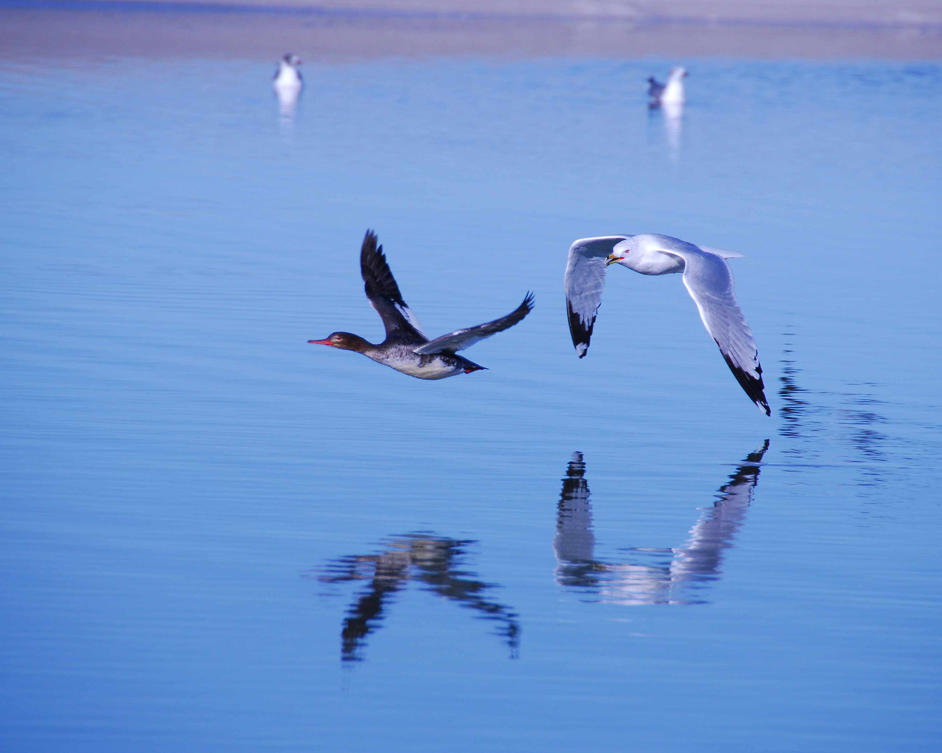 Photo by Matt Edmonds. Red breasted merganser being chased by a ringed gull. Photo taken at Ft. DeSoto Park St. Petersburg, FL.